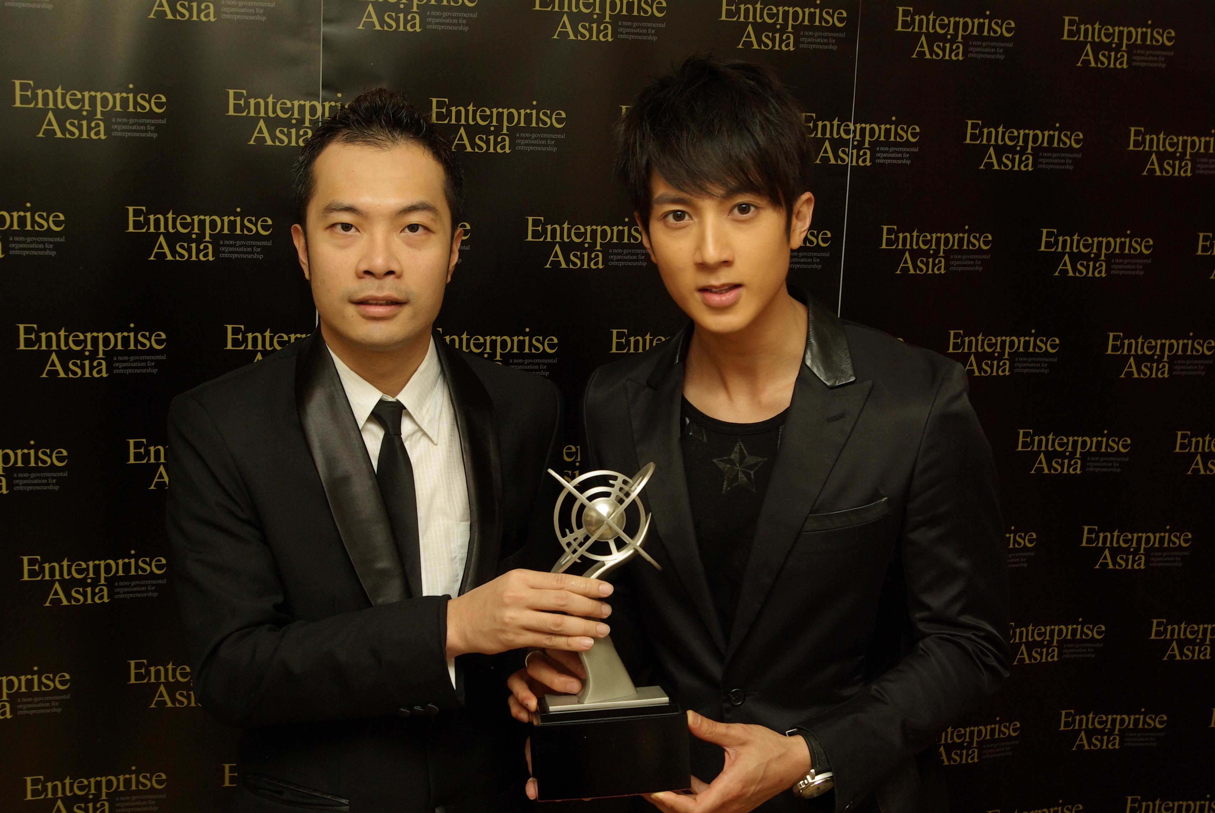 Goh Kiat Chun at APEA Brunei 2008 Awards Night,29 August 2008